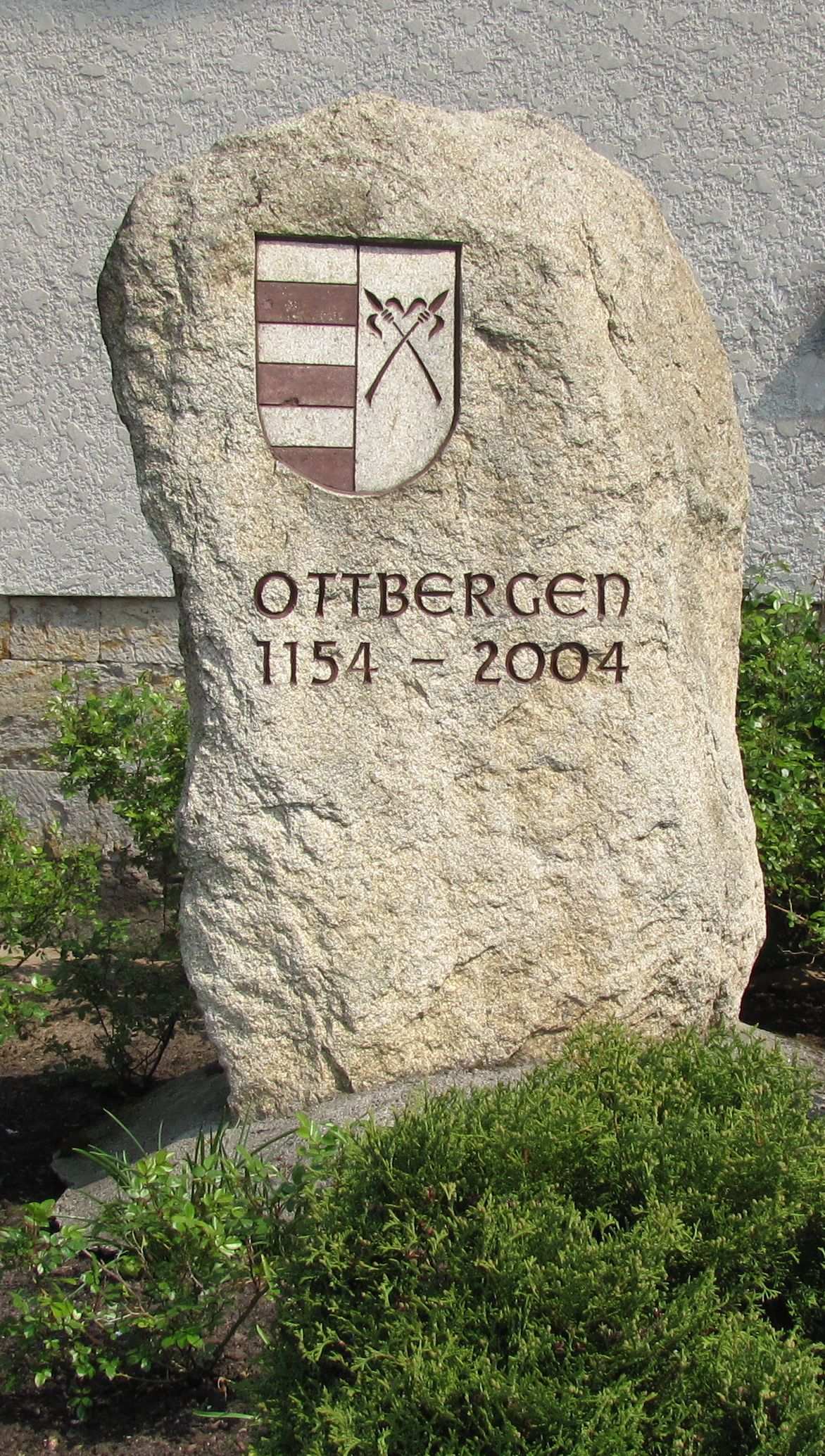 Memorial, Schellerten-Ottbergen, Lower Saxony, Germany